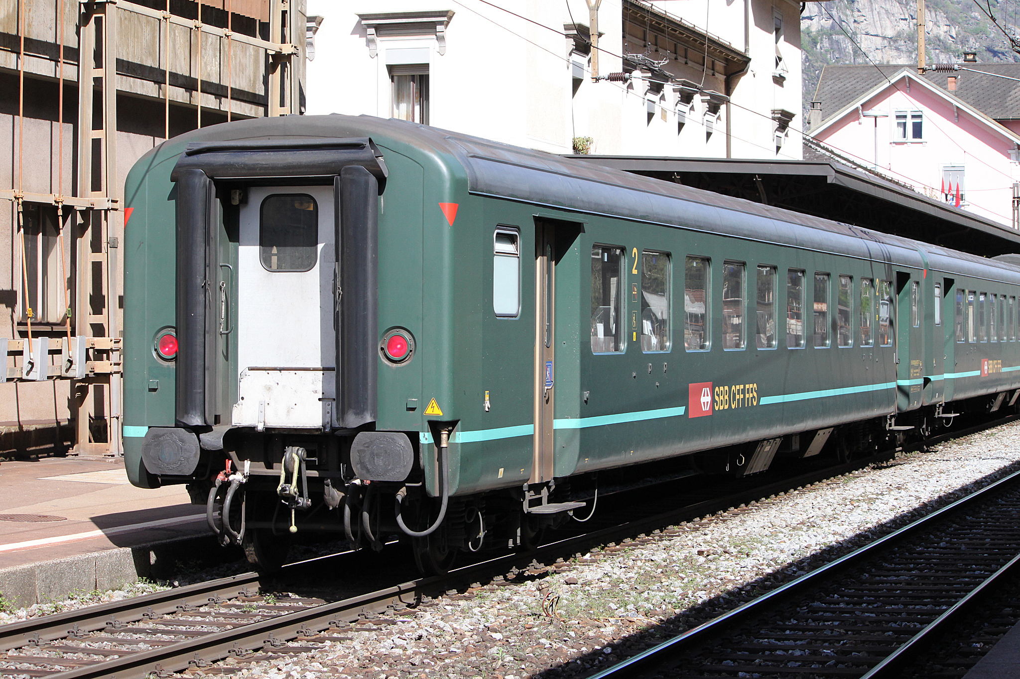 SBB CFF FFS B 50 85 20-34 707-3 at Biasca train station.